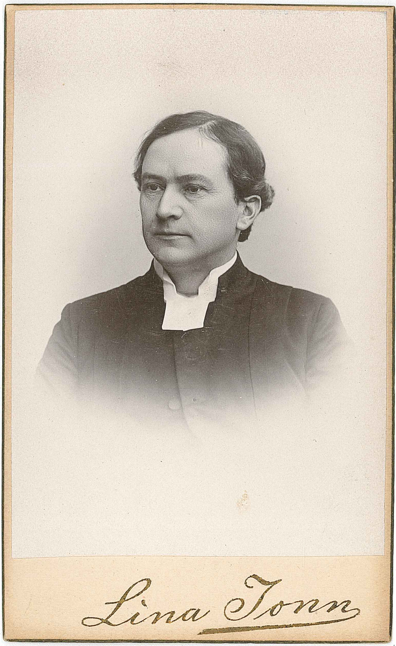 Magnus Pfannenstill (1858-1940), Swedish theologian and clergyman, professor at Lund University and cathedral dean (domprost) in Lund.